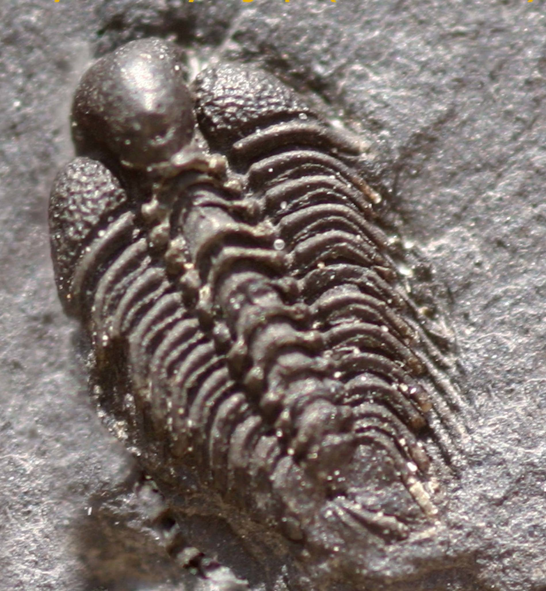 Trilobite: Dindymene didymograpti (Whittard, 1960) Locality: Minsterly, Shropshire, UK Age: Ordovician , Llanvirn Didymograptus artus-Biozone